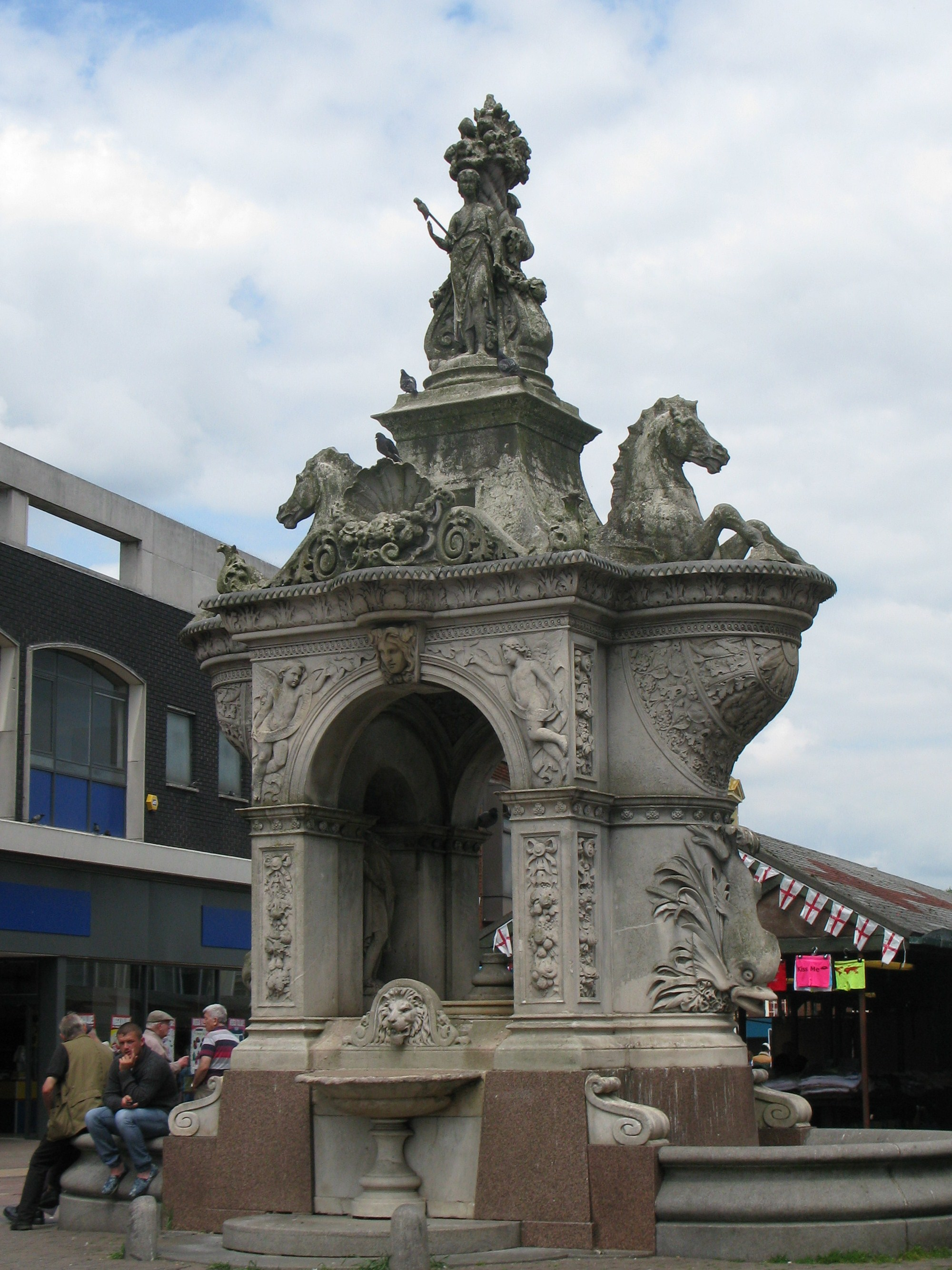 Drinking fountain, Dudley Market Place. "1867. Designed by James Forsyth, sculptor of the Perseus Fountain at Witley Court, Worcestershire. Presented by the Earl of Dudley. Local stone. Flamboyant Italian Renaissance style with much sculpture and bas-reliefs. Truimphal arch motif crowned with central figure and flanking horses couchant (sic)" (Listed Building text[1]). Grade II. Actually heraldic demi-sea horses